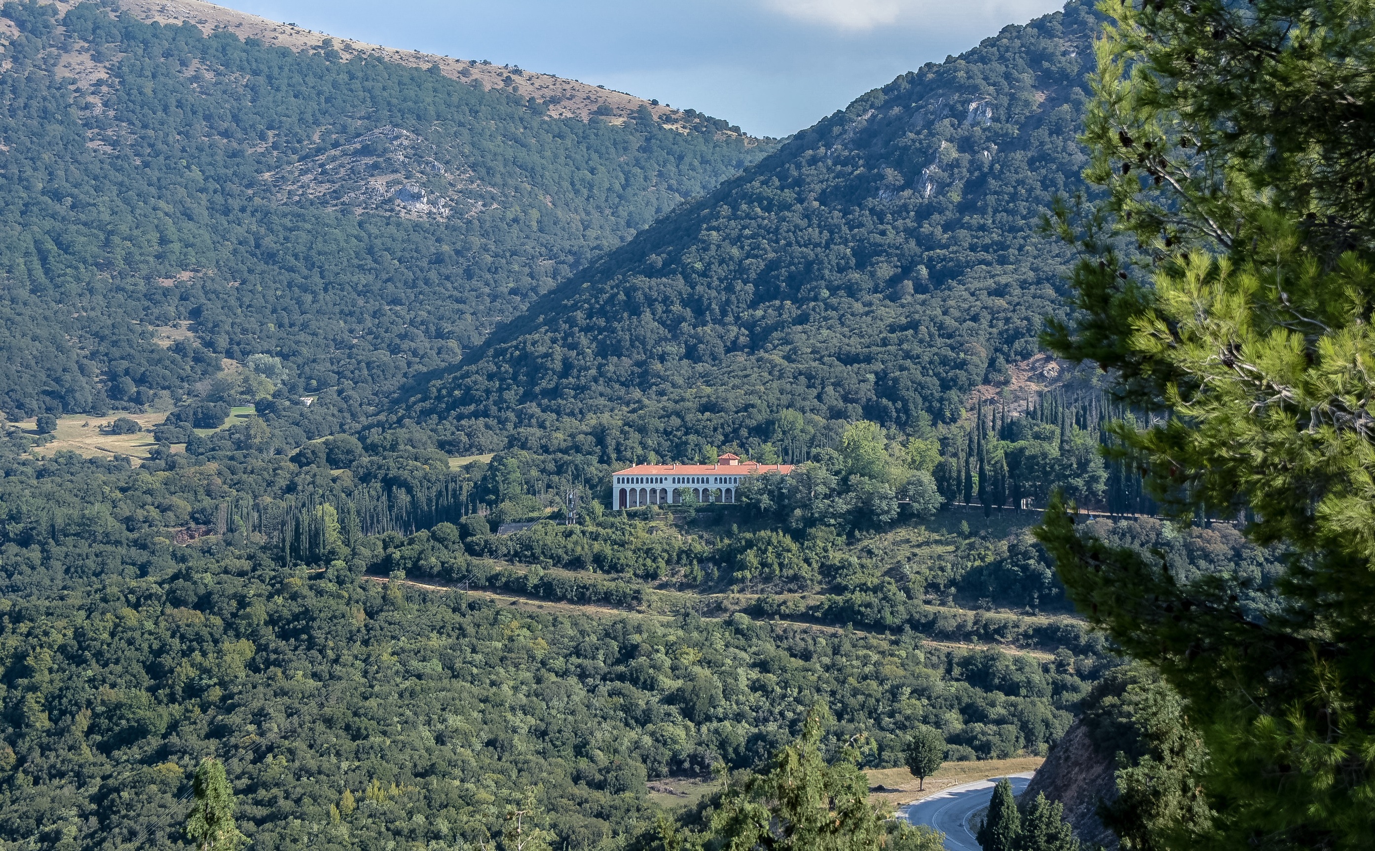 Agia Lavra monastery (September 2016), view from Greek Independence War monument.«Μονή Αγίας Λαύρας»